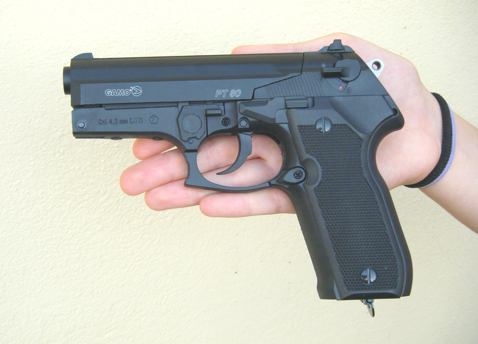 Air gun 2